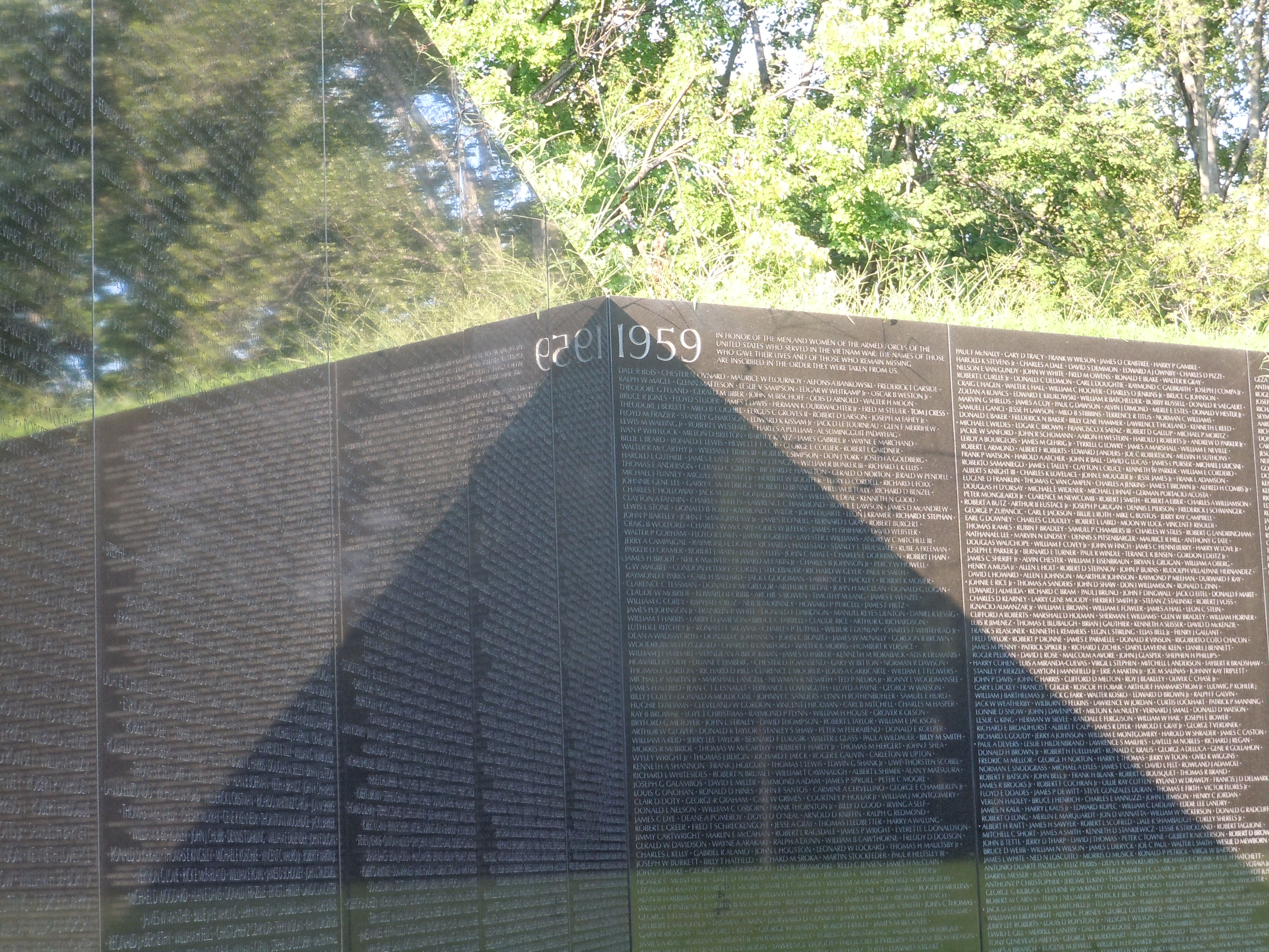 Vietnam Veterans Memorial, West end of Constitution Gardens NW